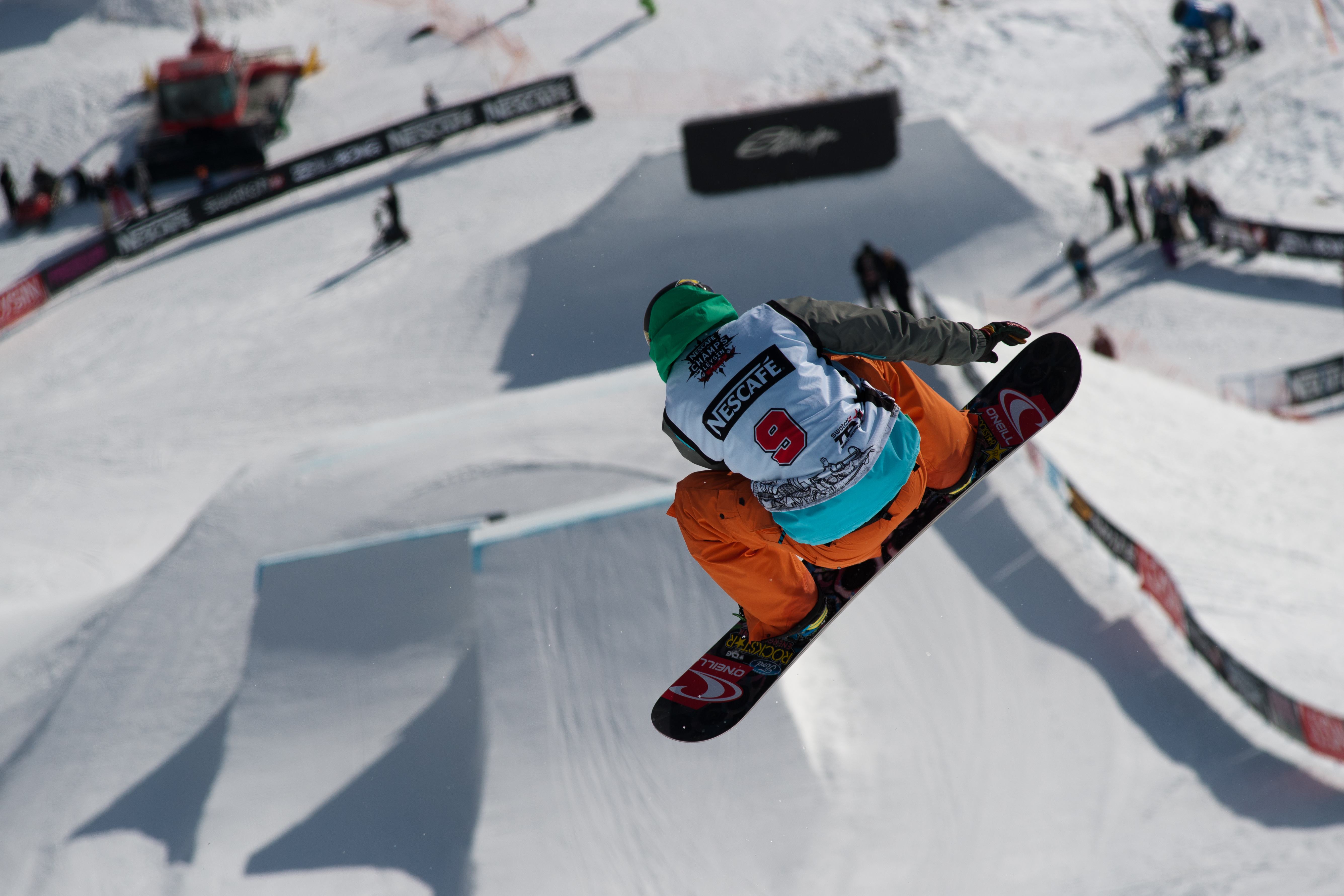 The making of this document was supported by Wikimedia CH. (Submit your project!) For all the files concerned, please see the category Supported by Wikimedia CH. 20th Leysin Nescafe Champs, 8th - 13th February 2011